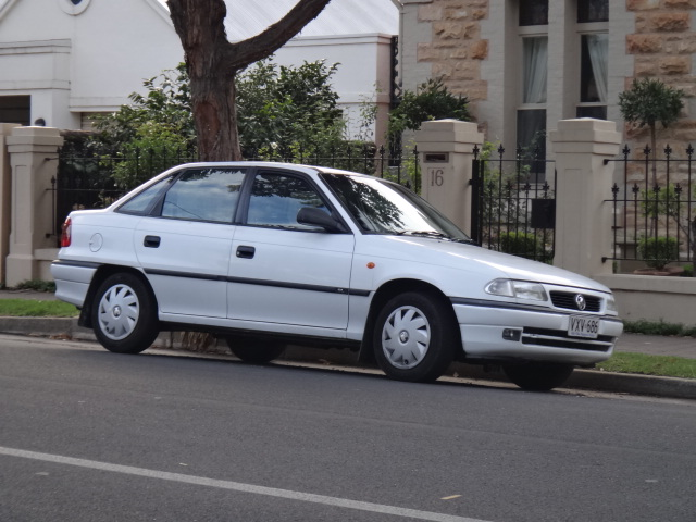 Most seem to be in average condition nowadays, but this one looks like it's been well looked after.